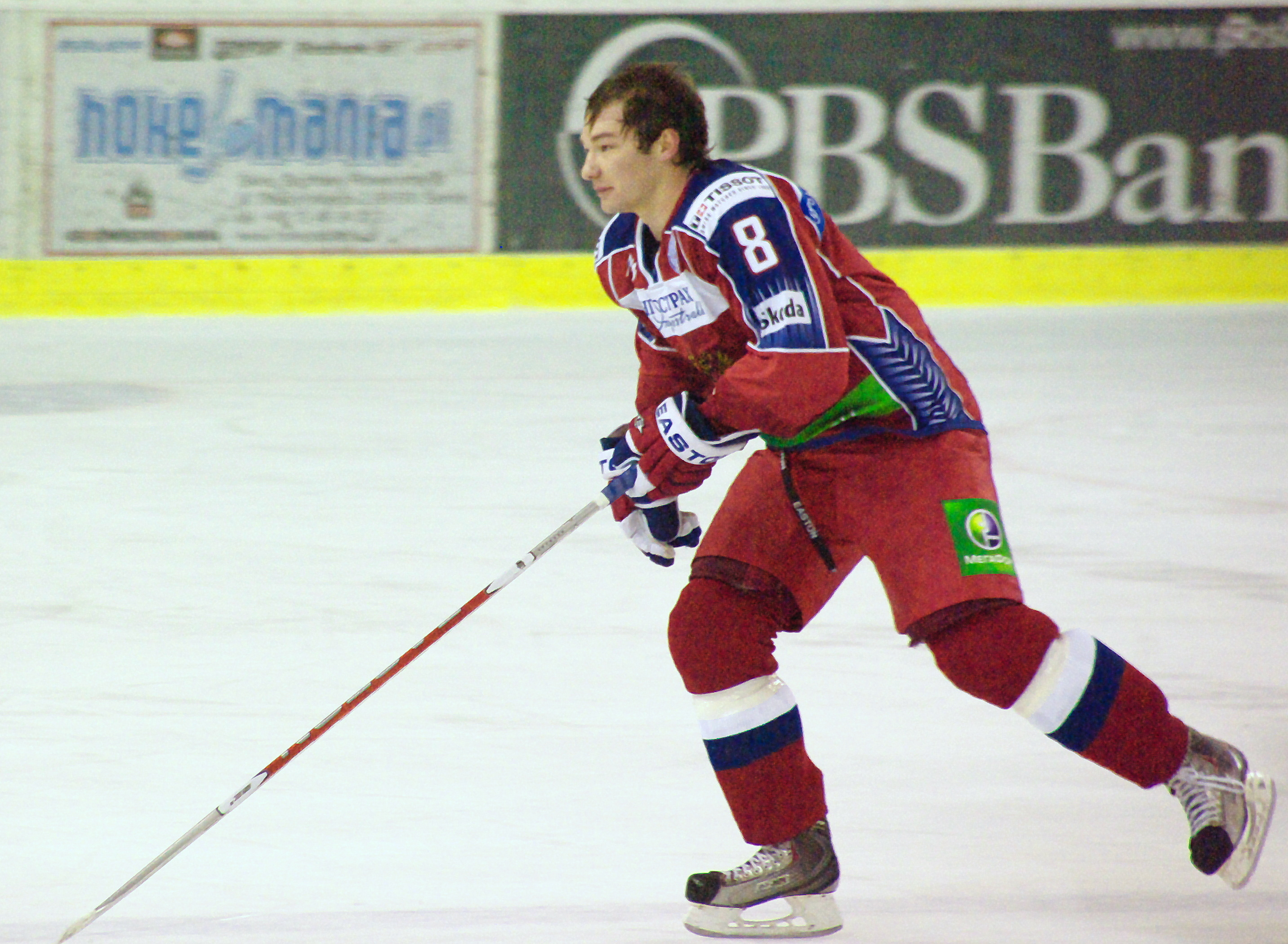 Marat Kalimulin during match Russia B - Ukraine (EIHC Tournament in Sanok, Poland)